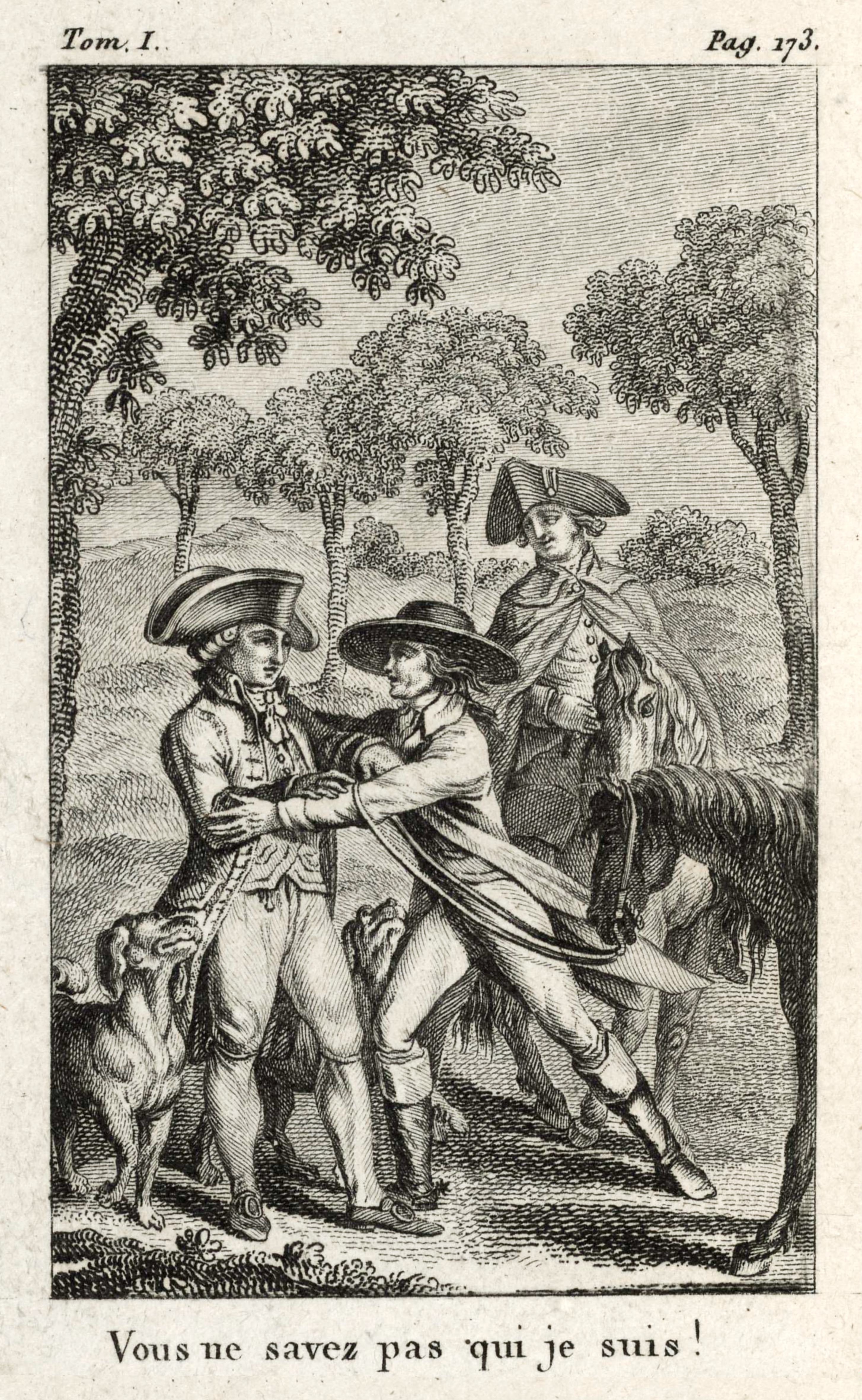 Jacques the Fatalist and his Master (1778-1780) by Denis Diderot (1713-1784)